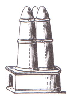 The two turning points in the ancient Roman Circus